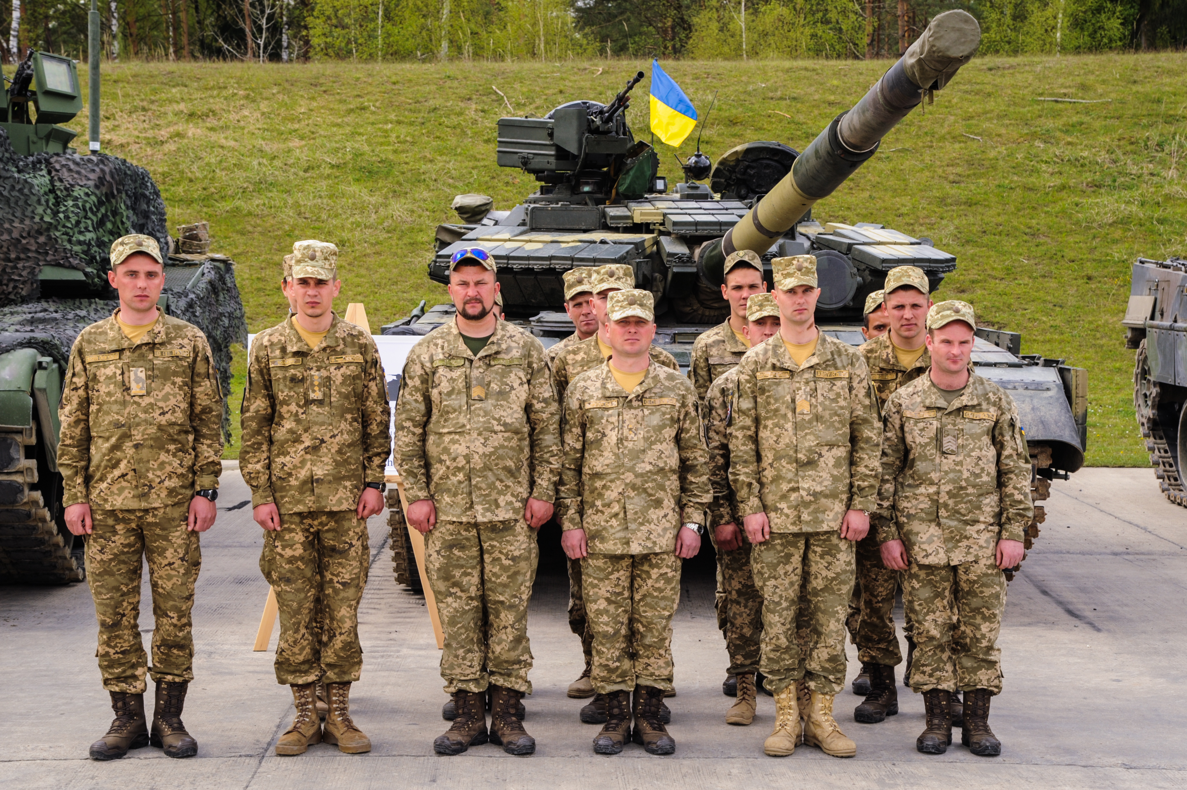 The 2nd annual U.S. Army Europe Strong Europe Tank Challenge 2017 kicked off May 7 in Grafenwoehr, Germany with an opening ceremony, including special guest, the Acting Secretary of the Army, the Honorable Robert M. Speer. The Strong Europe Tank Challenge (SETC) is co-hosted by U.S. Army Europe and the German Army, May 7-12, 2017. The competition is designed to project a dynamic presence, foster military partnership, promote interoperability, and provides an environment for sharing tactics, techniques and procedures. Platoons from six NATO and partner nations are in the competition. (U.S. Army photo by Markus Rauchenberger)